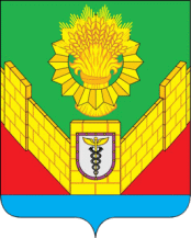 Coat of arms of Tbiliskaya, Krasnodar Krai, Russia.